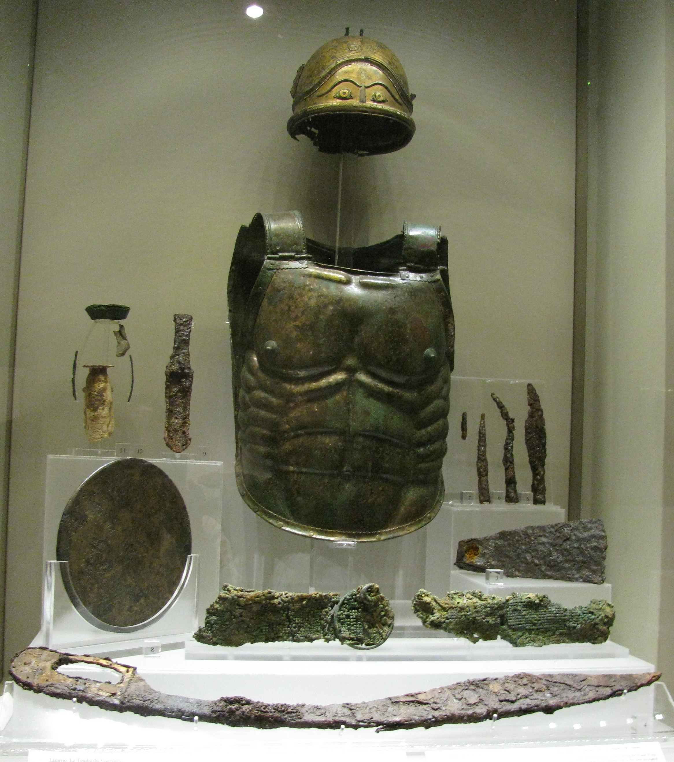 Warrior weapons found in a tomb in Lanuvium, near Rome. Vth century BC. Kept in Diocletian's Baths Museum, Rome